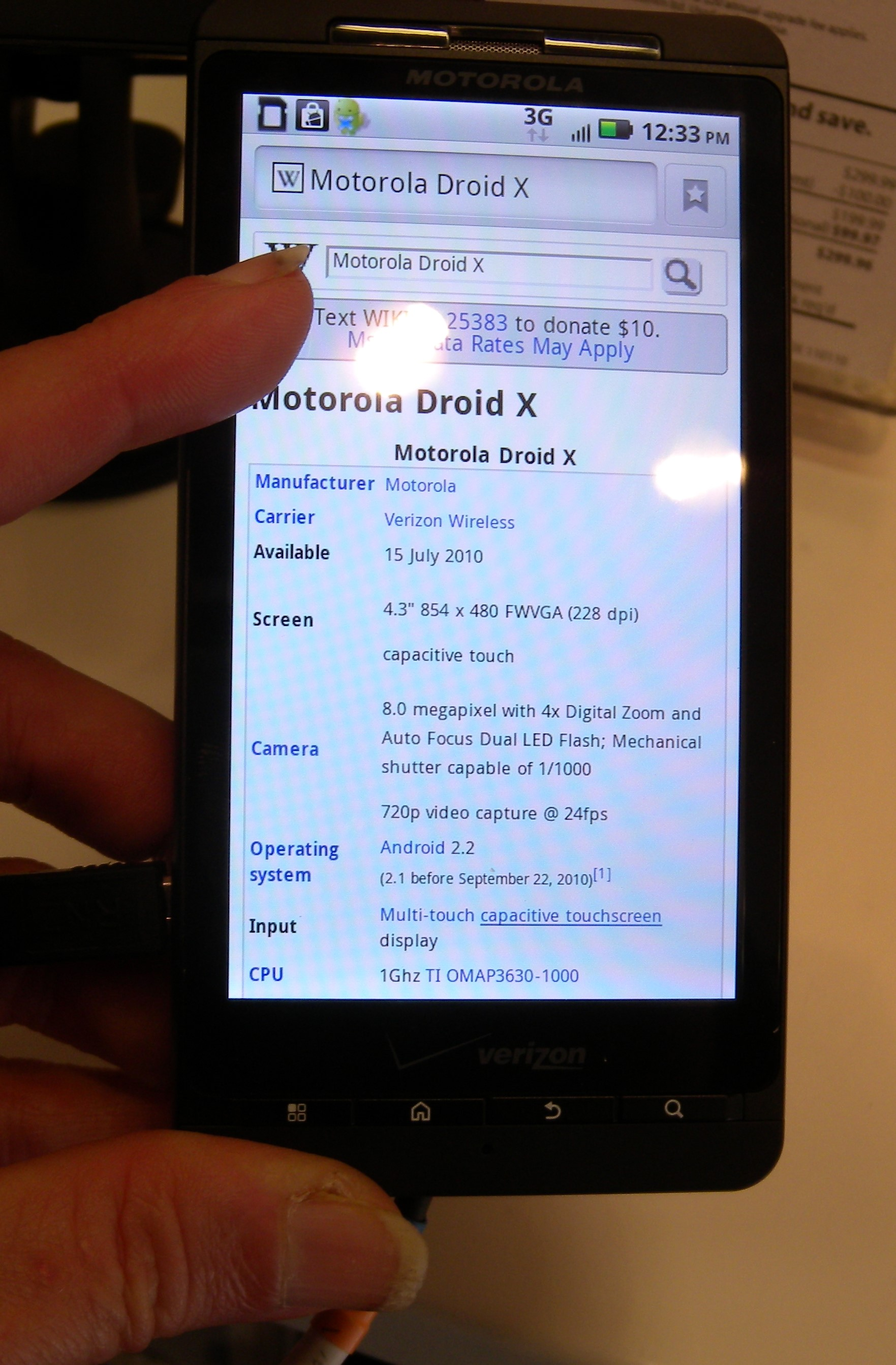 Motorola Droid X displaying its own Wikipedia article.